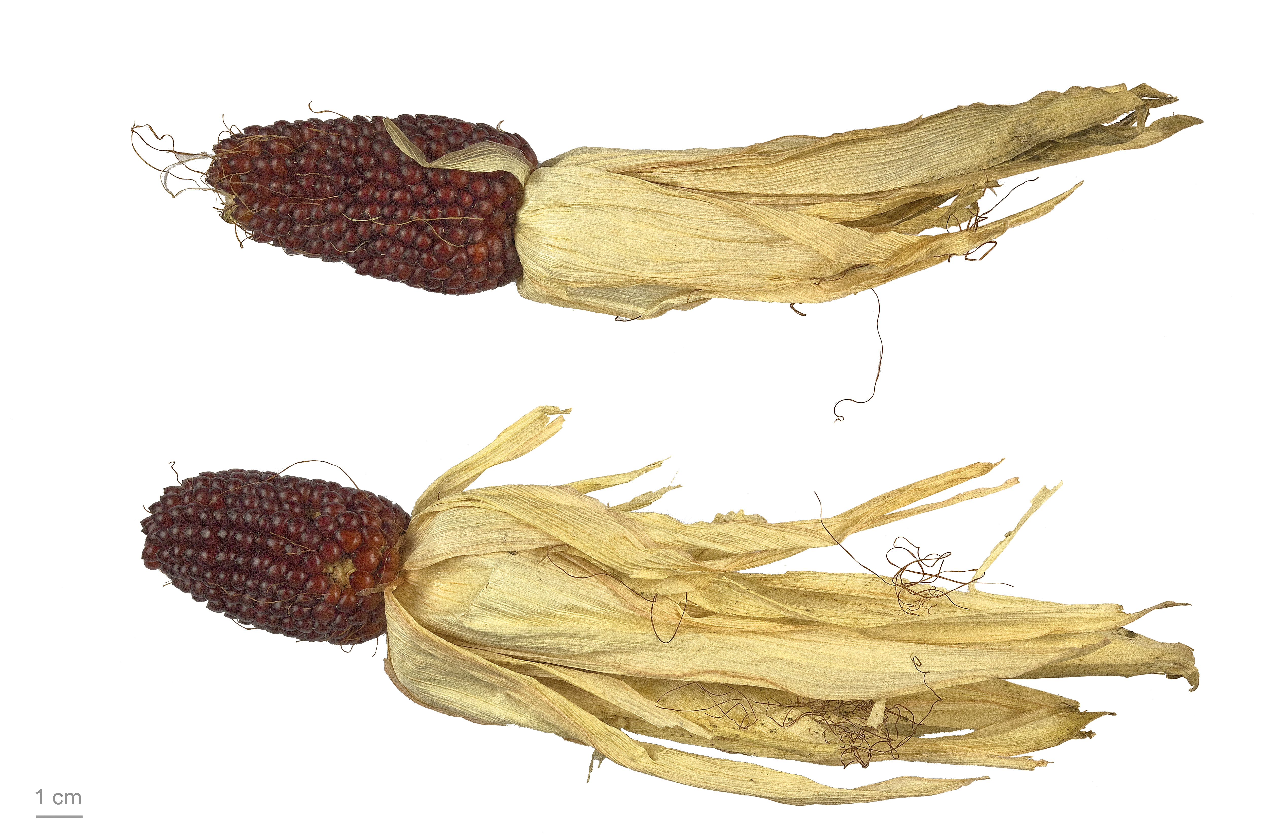 Maize "strawberry", fruits and seeds